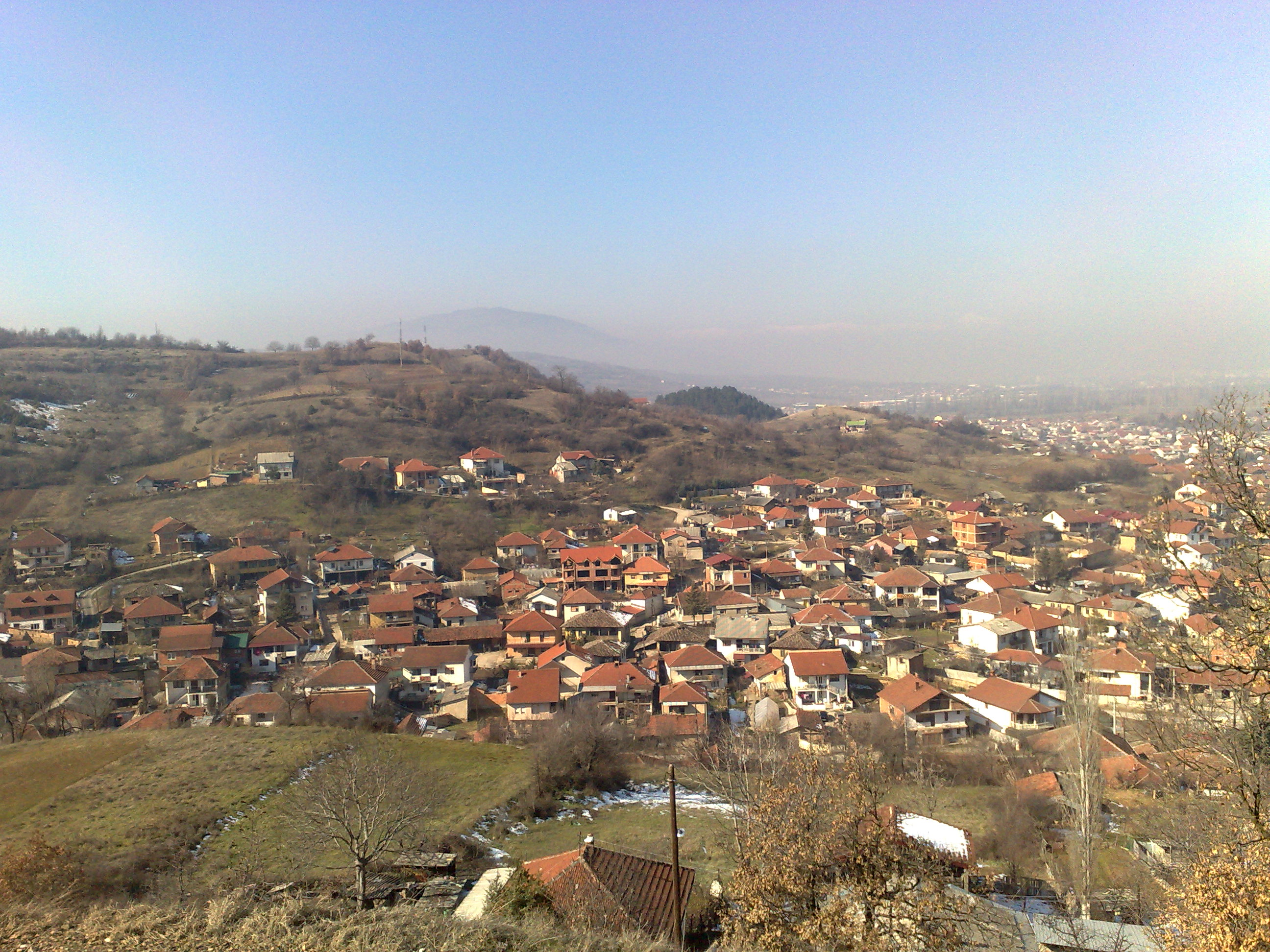 village of Drachevo, Macedonia